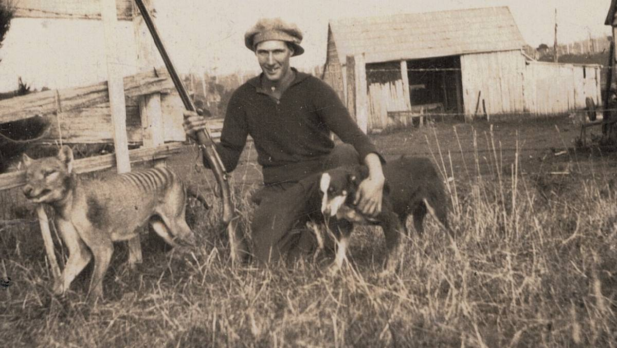 Wilfred Batty of Mawbanna, Tasmania, with the last Tasmanian tiger known to have been shot in the wild. He shot the tiger in May, 1930 after it was discovered in his hen house.